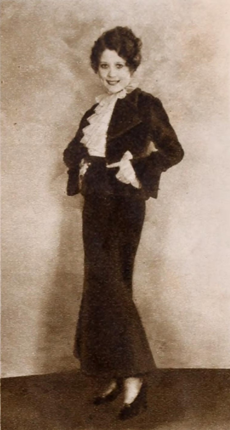 Radio Stars, Oct. 1934. Dress designed by Gladys Parker. A contest was held for this dress; a fan had to write Hanshaw a letter telling which dress they wanted and why in 75 words or less.